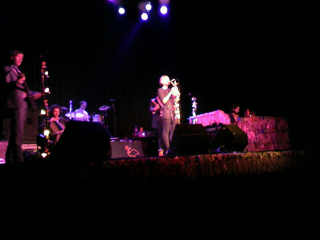 Sia concert 2006